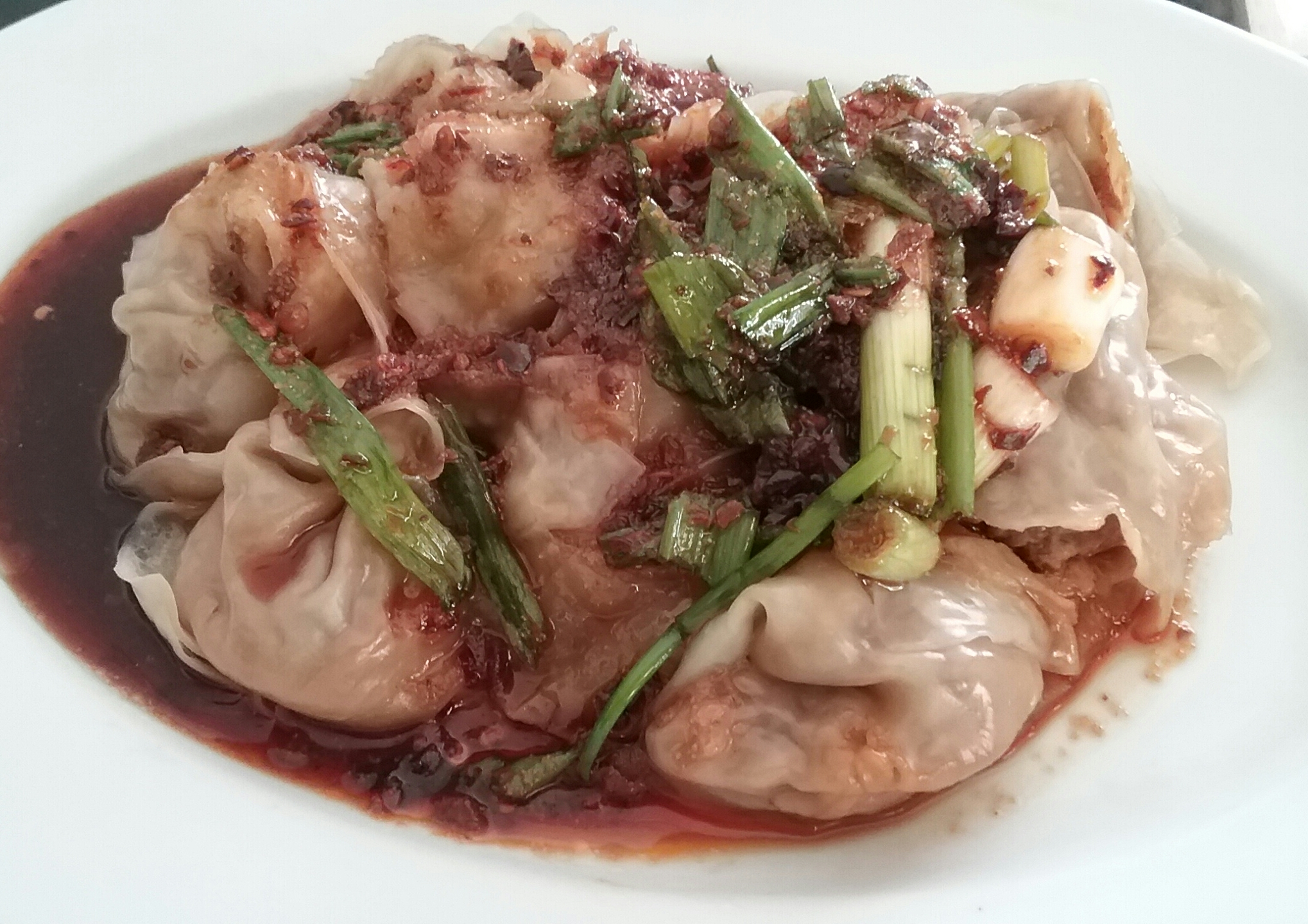 A plate of Red Oil Wontons. The recipe is from the cookbook “Chinese Rice & Noodles, with Appeitizers, Soups, & Sweets” by Su-Huei Huang & Mu-Tsun Lee. Published by Wei-Chuan Publishing (Sept. 2005, Taiwan).It also can be found at Red Cook